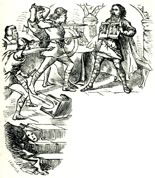 1867 Illustration by John Fergus O'Hea "As the assassins drew their swords upon him, Mahon snatched up the sacred scroll, and held it on his breast, as if he could not credit that a murderous hand would dare wound him through such a shield! But the murderers plunged their swords into his heart, piercing right through the vellum, which became all stained and mattered with his blood." [1]